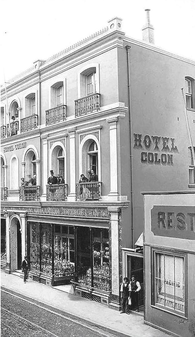 Café Pacific en calle Cabo (hoy Esmeralda), Valparaíso. Año 1895.